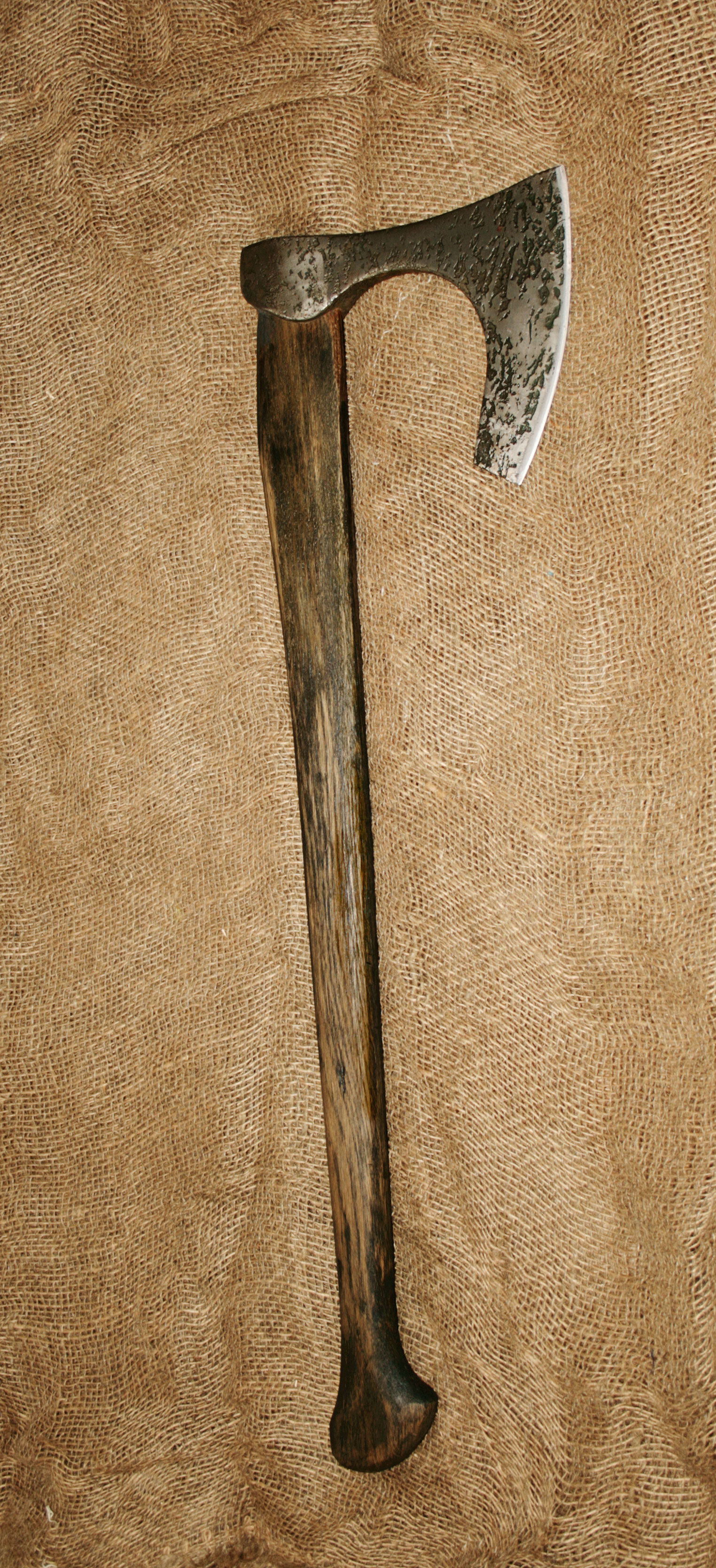 Russian bearded axe. 10-13 centuries.